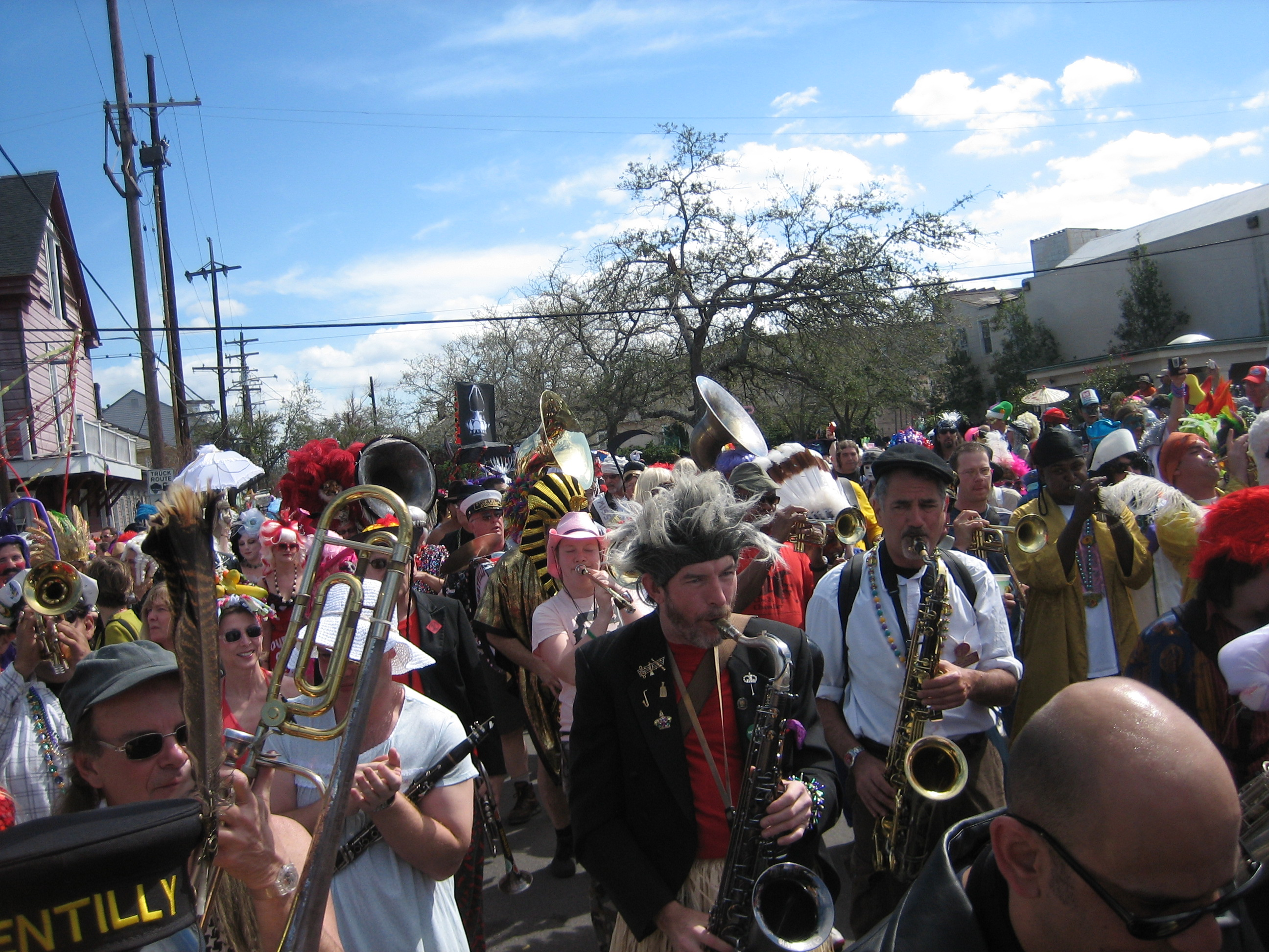 New Orleans, Faubourg Marigny, St. Anne Parade, Mardi Gras morning 2006 Band crossing Elysian Fields Avenue. Photo by Infrogmation ]